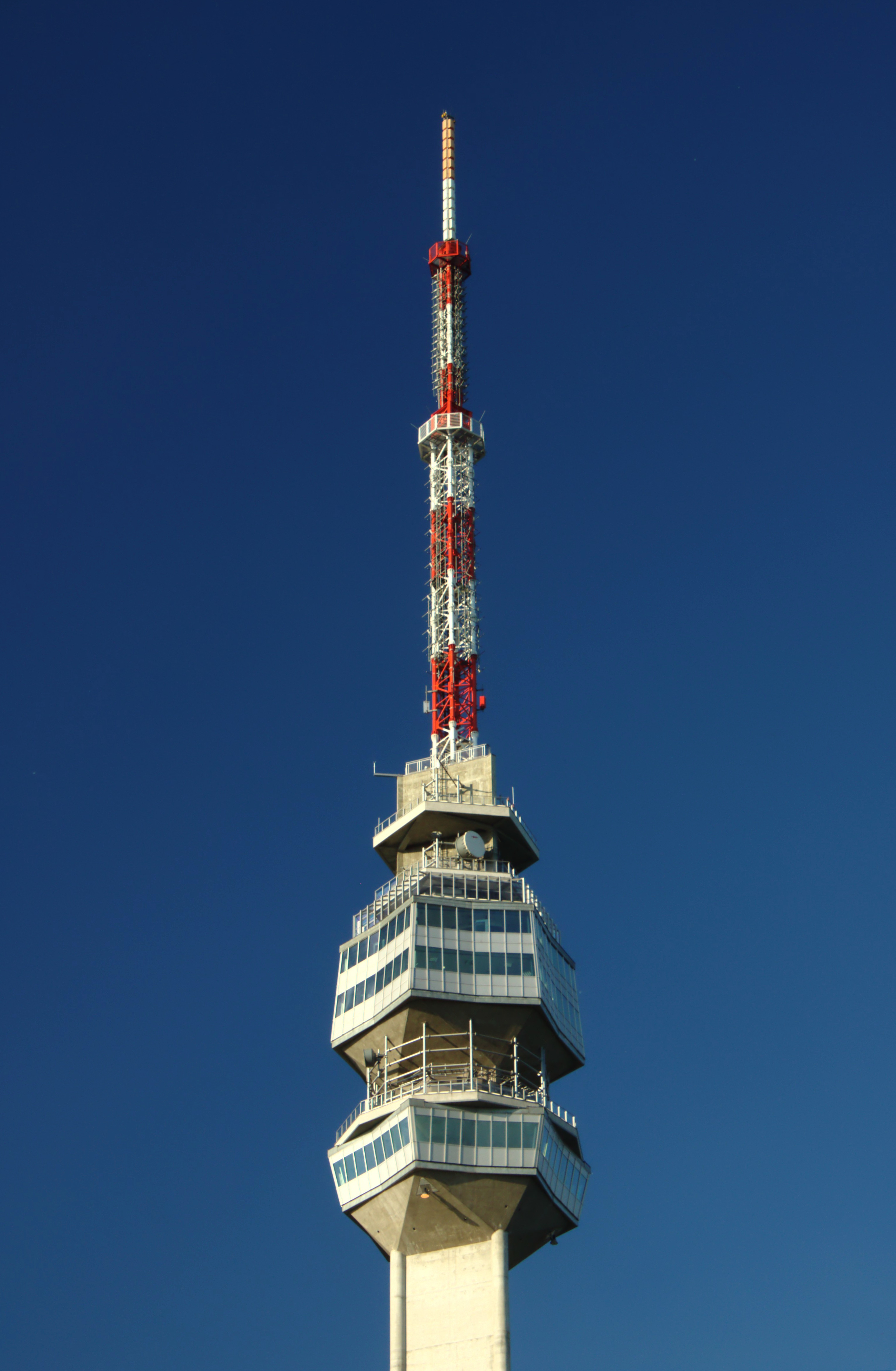 Top section of the Avala TV tower, Serbia